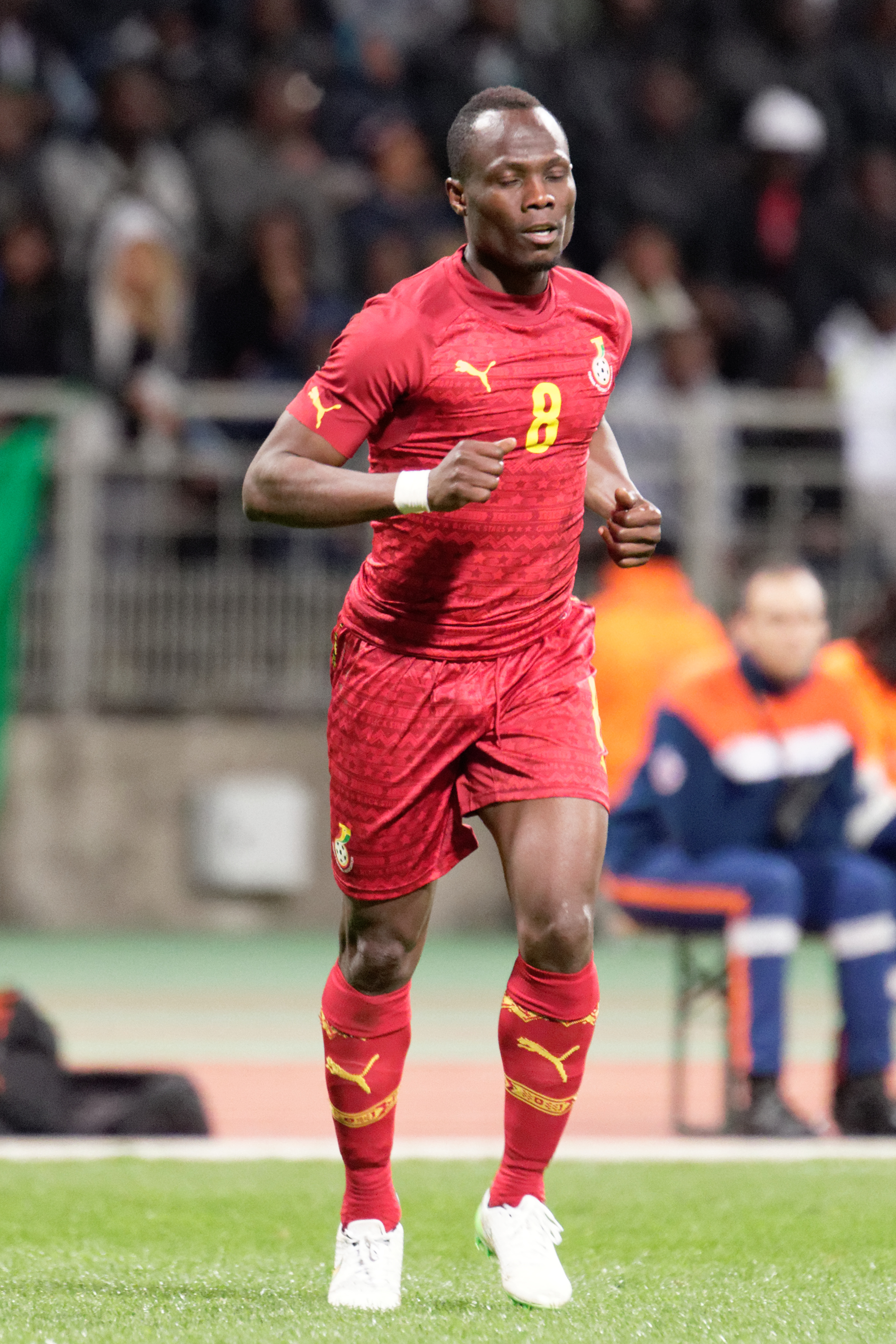 Mali vs Ghana, exhibition game at Paris, 31st March 2015.